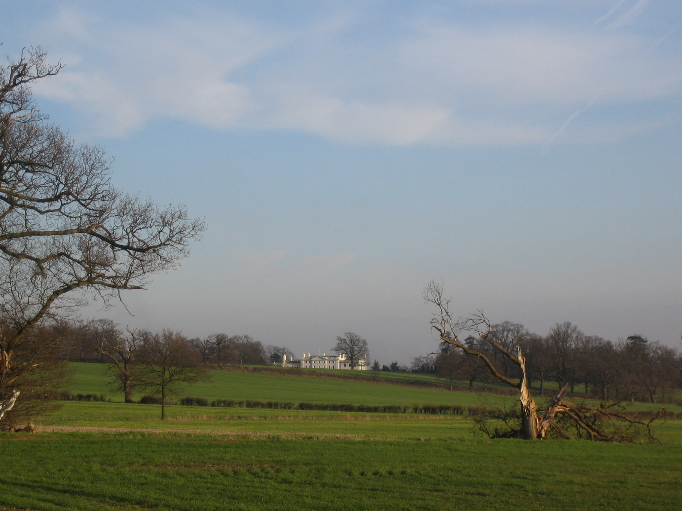 I created this picture of Blake Hall myself on 01 February 2007. I hereby release it to the public domain to the maximum extent possible in relevant jurisdictions.